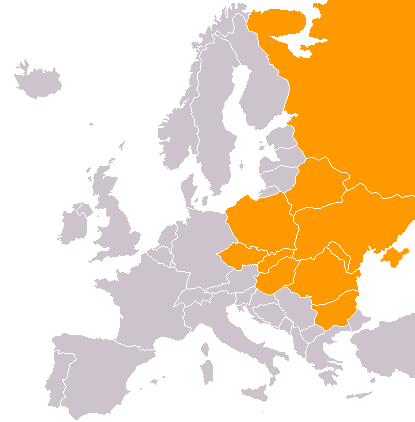 Map of Eastern Europe countries — using UN Statistics Division system.